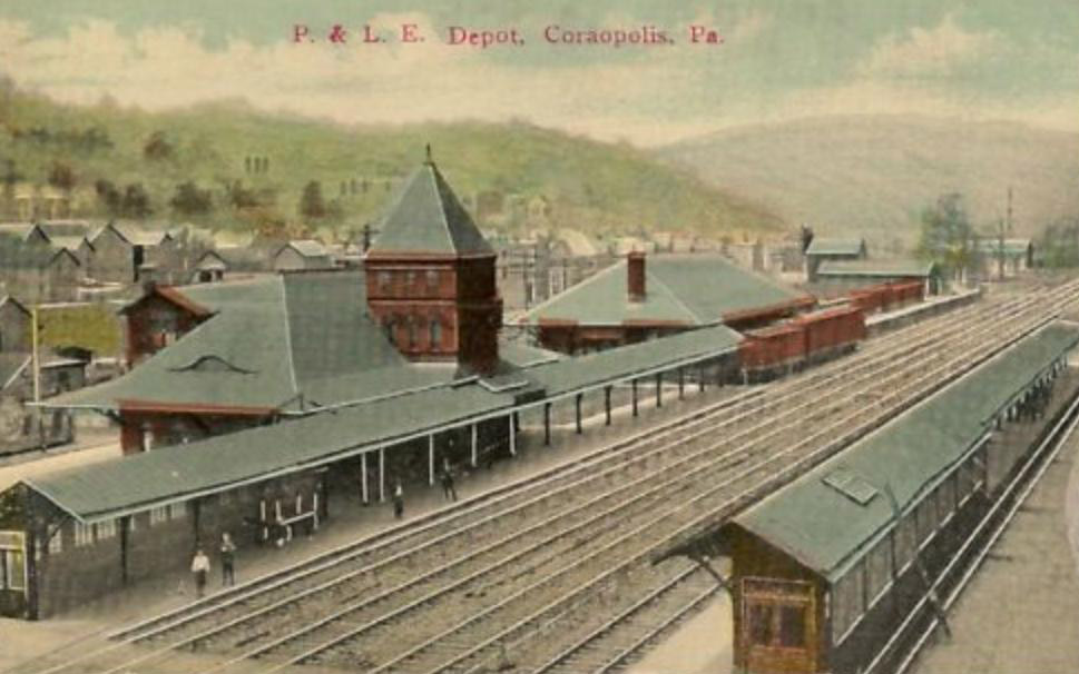 A train station postcard of Corapolis, ca. 1910